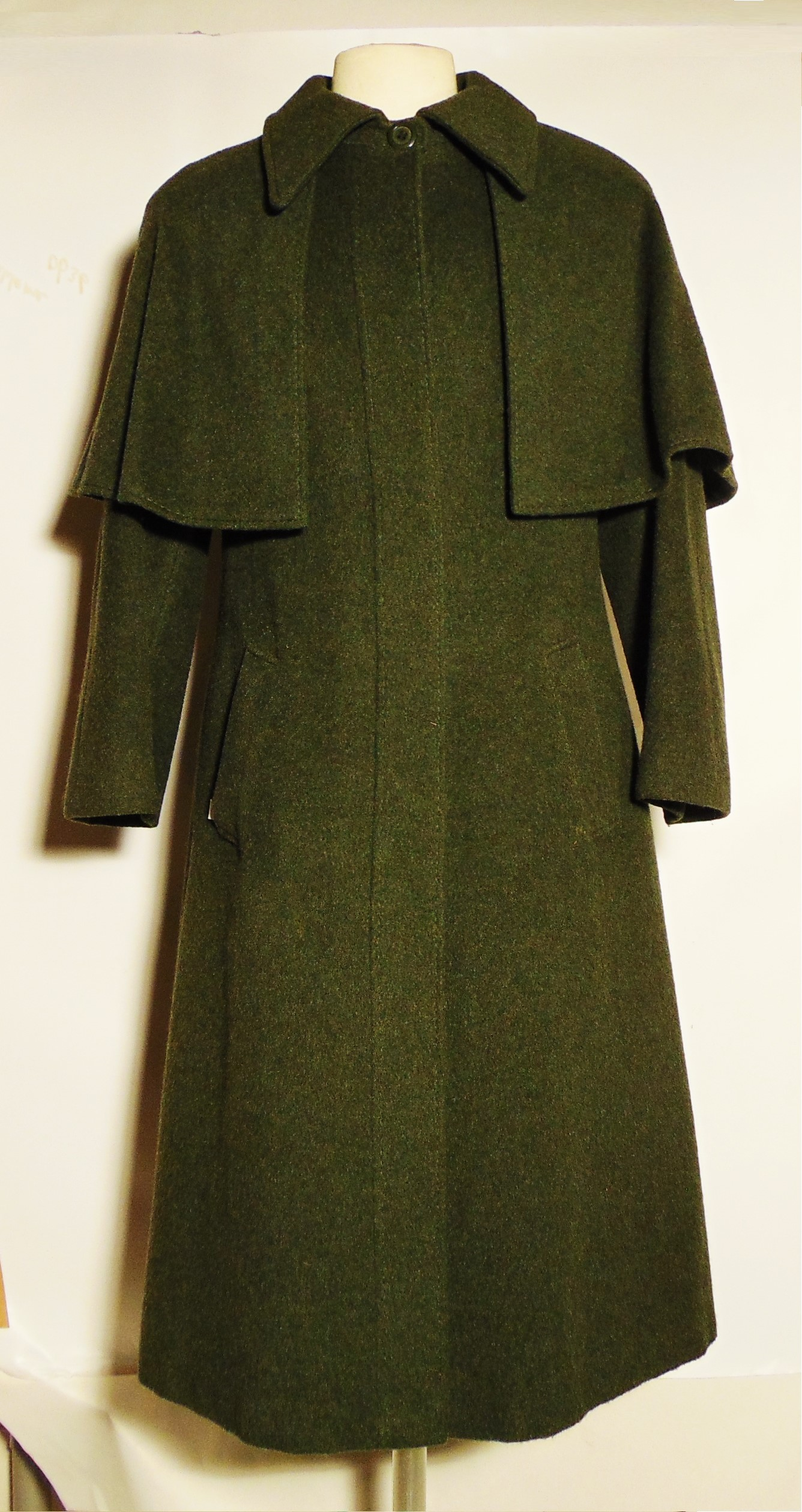 Green ladies coat, label: Loden Frey München 83% wool 12% polyamide 5% polyester. Photographed in the collection of the National Liberation Museum 1944-1945, the Netherlands, archive number 3.2.460.